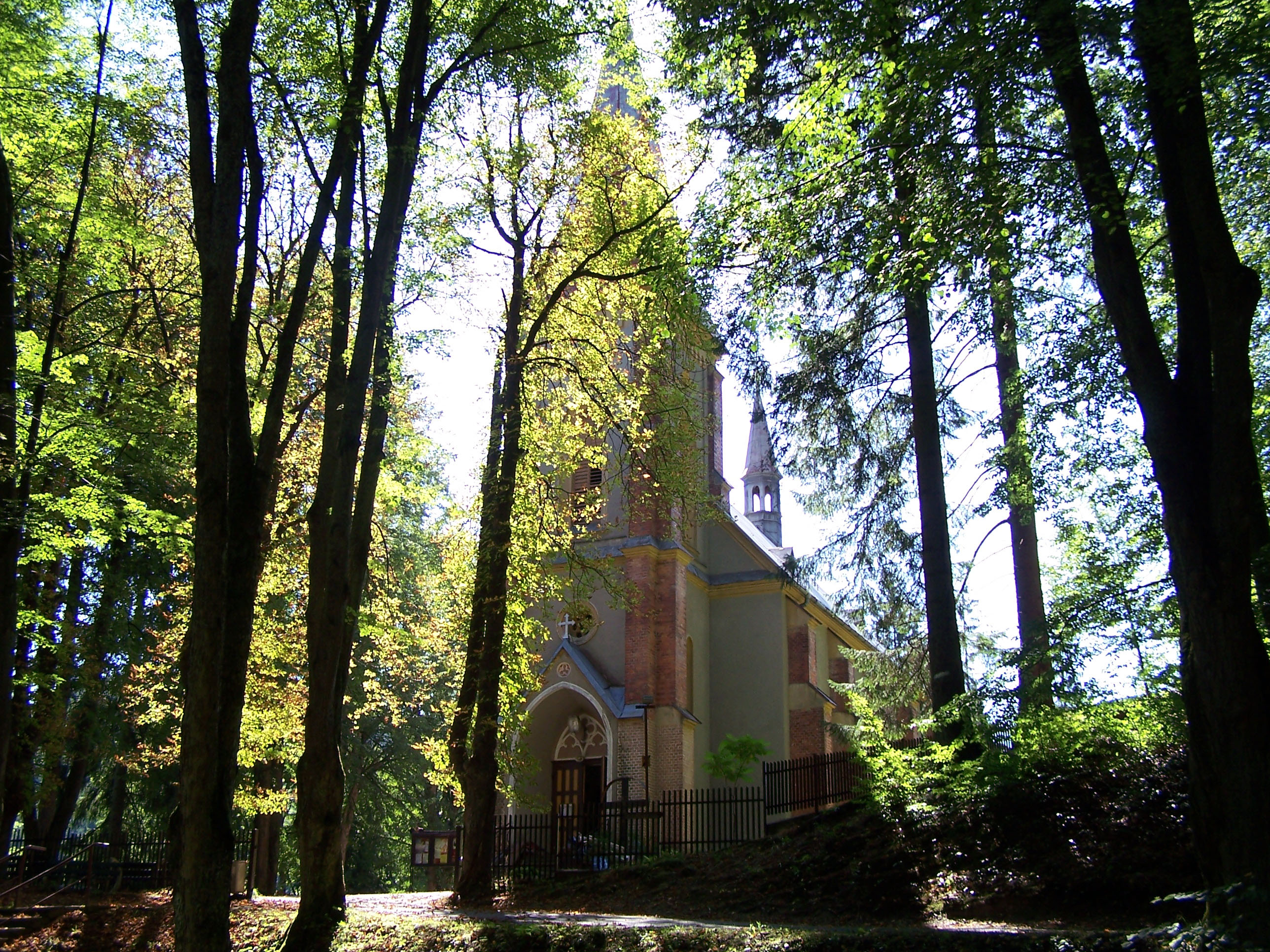 Church of the Holy Cross in Horní Lomná (Łomna Górna), Czech Republic